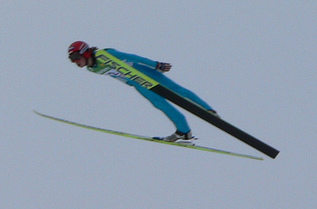 From the 2005 World Cup Nordic Combined event in Holmenkollen.